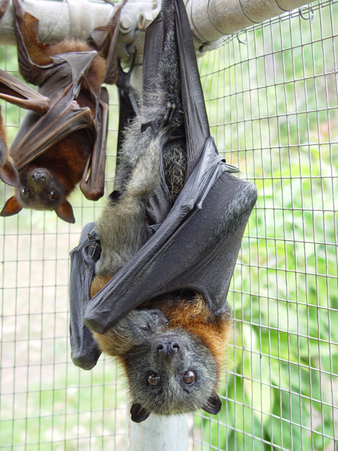 Grey-headed Flying Fox (Pteropus poliocephalus) with baby. There's also a Little red flying-fox (Pteropus scapulatus) on the left